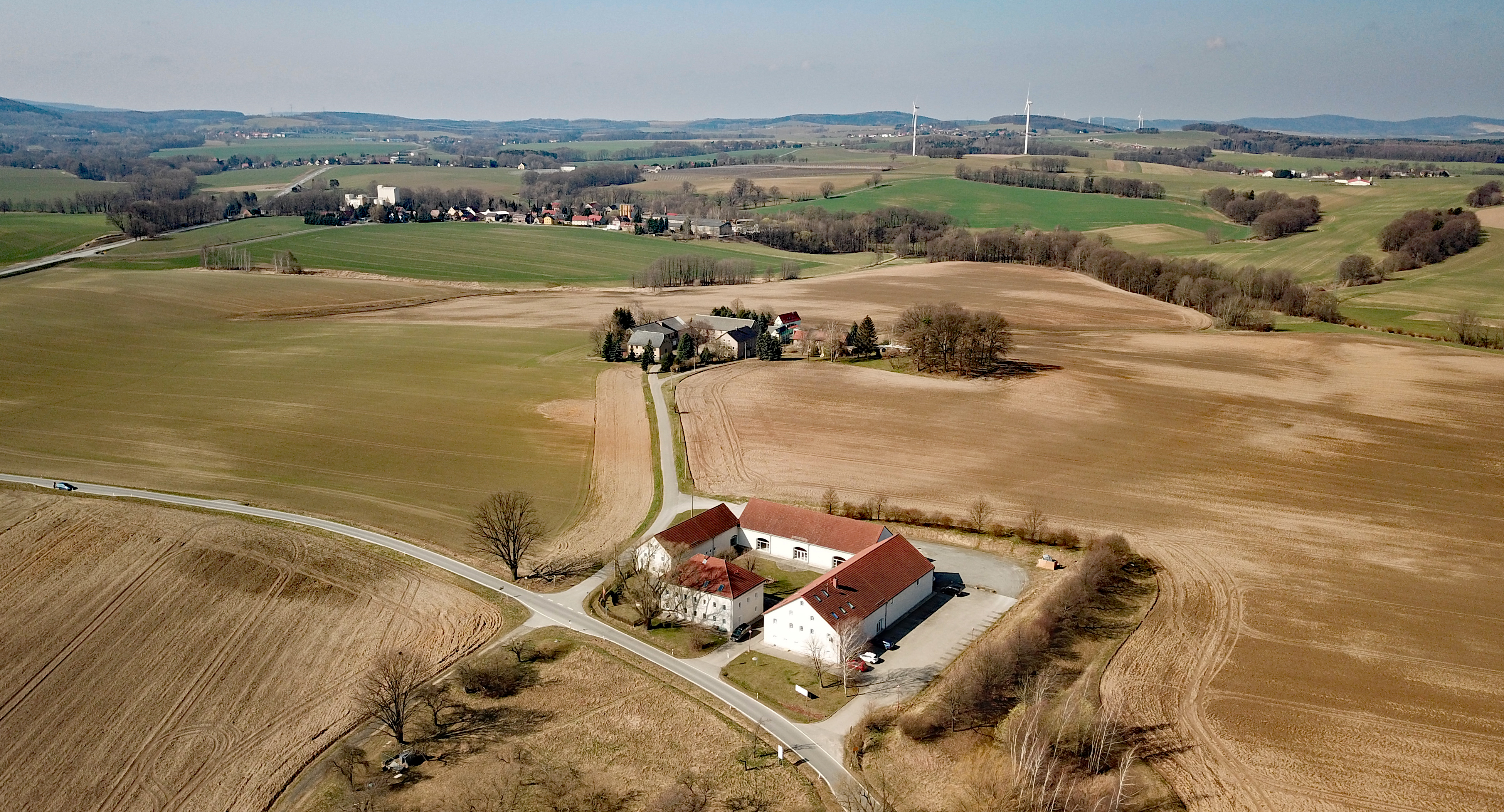 Kleinpraga (Göda, Saxony, Germany) Hornjoserbsce: Powětrowy wobraz Małeje Prahi